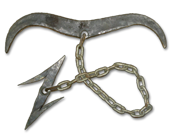 Wolfsangel (Wolfsjagd), historic wolf trap, consisting of two metal parts and a connecting chain. Inspiration behind a German heraldic charge. Image produced digitally and inspired by reconstructions of such traps found elsewhere on the internet, e.g. Werner Störk, Wolfsgruben, Wolfsangel und Wolfsanker, 2010 Friedrich-Ebert-Schule Schopfheim, Von Wolfsankern, Krähenfüßen, Wassernüssen, Wolfs- & Fußangeln, 2003